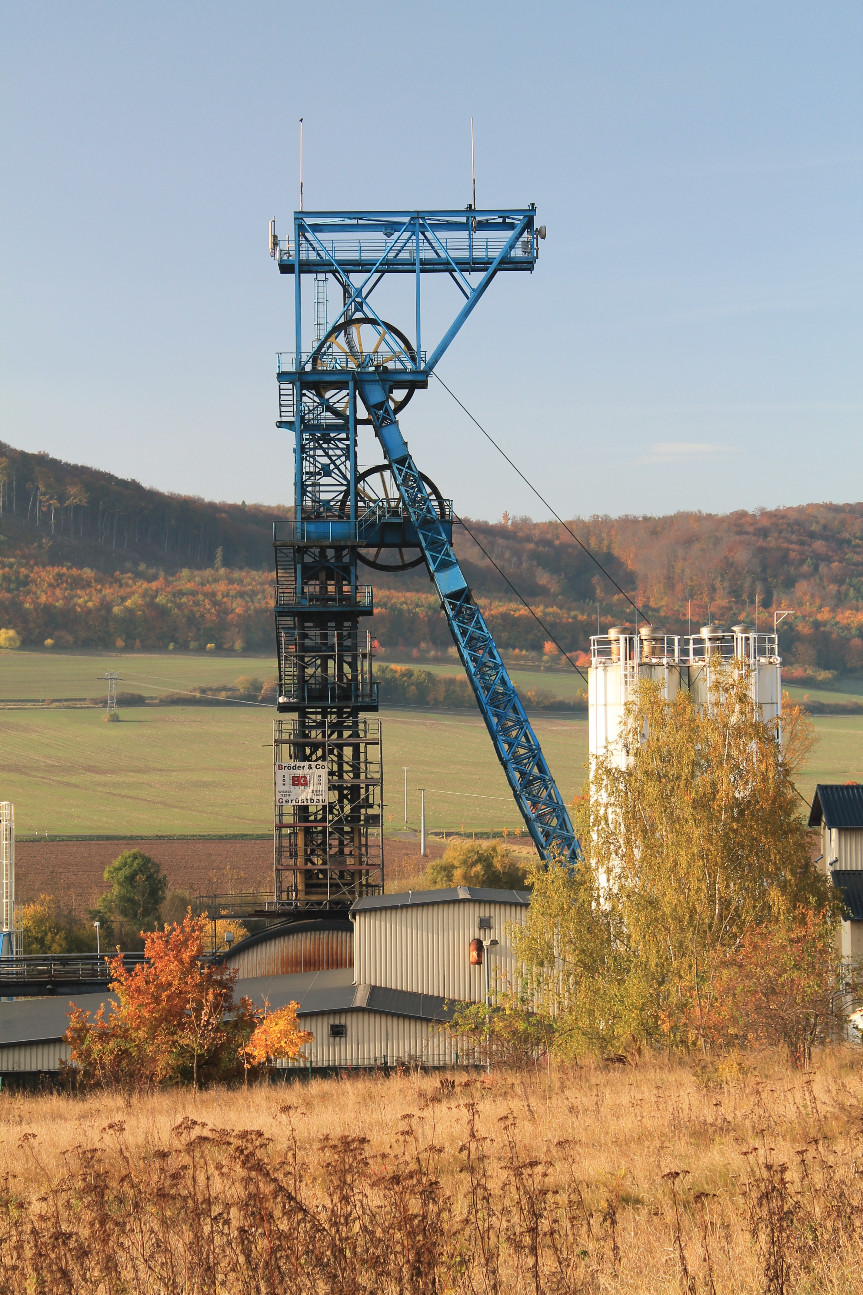 No. 5 shaft of Kaliwerk Glückauf Sondershausen. Sondershausen, Thuringia, Germany.